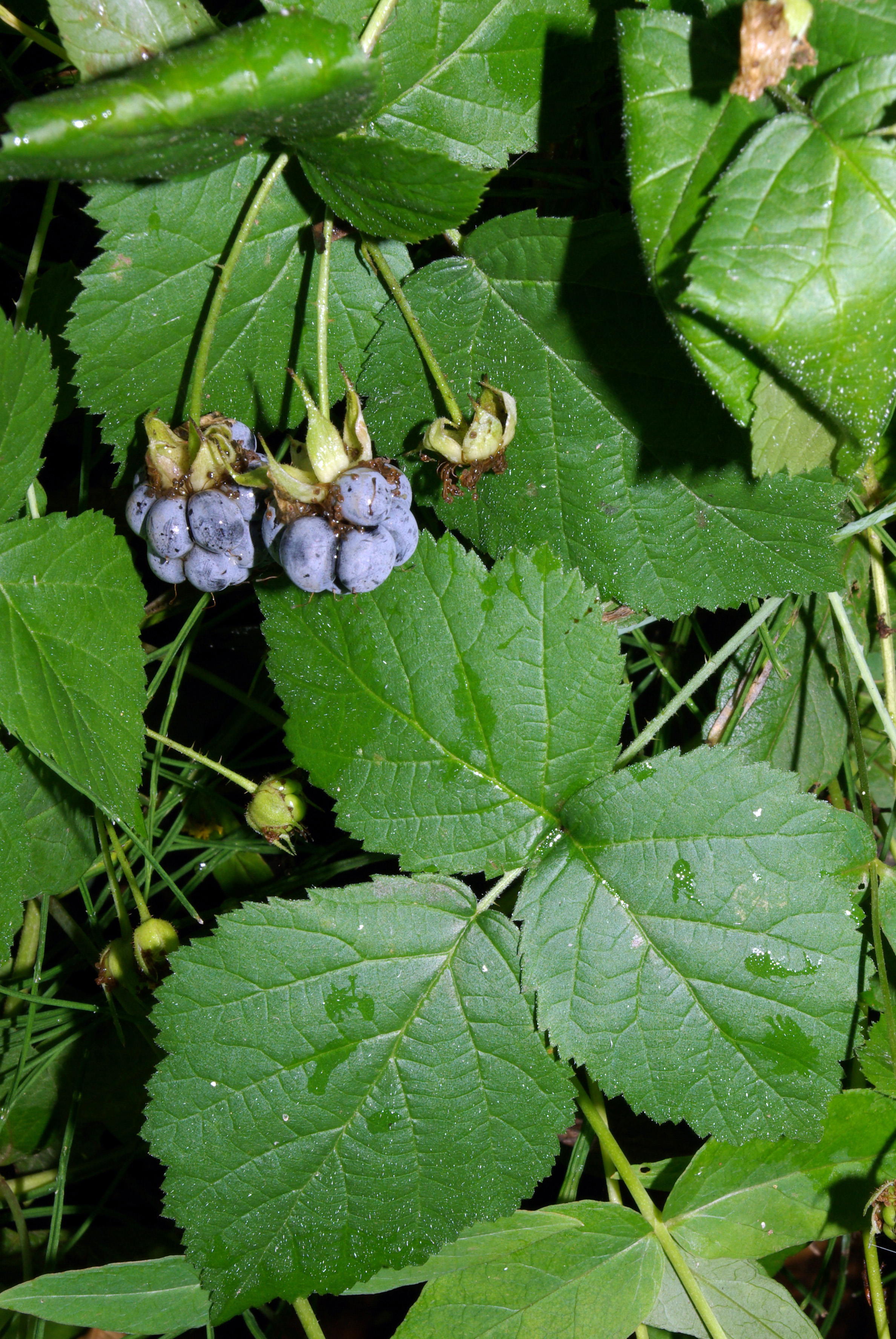 Fruits and leaves of European Dewberry (Rubus caesius) near Cistierna, León (Spain)